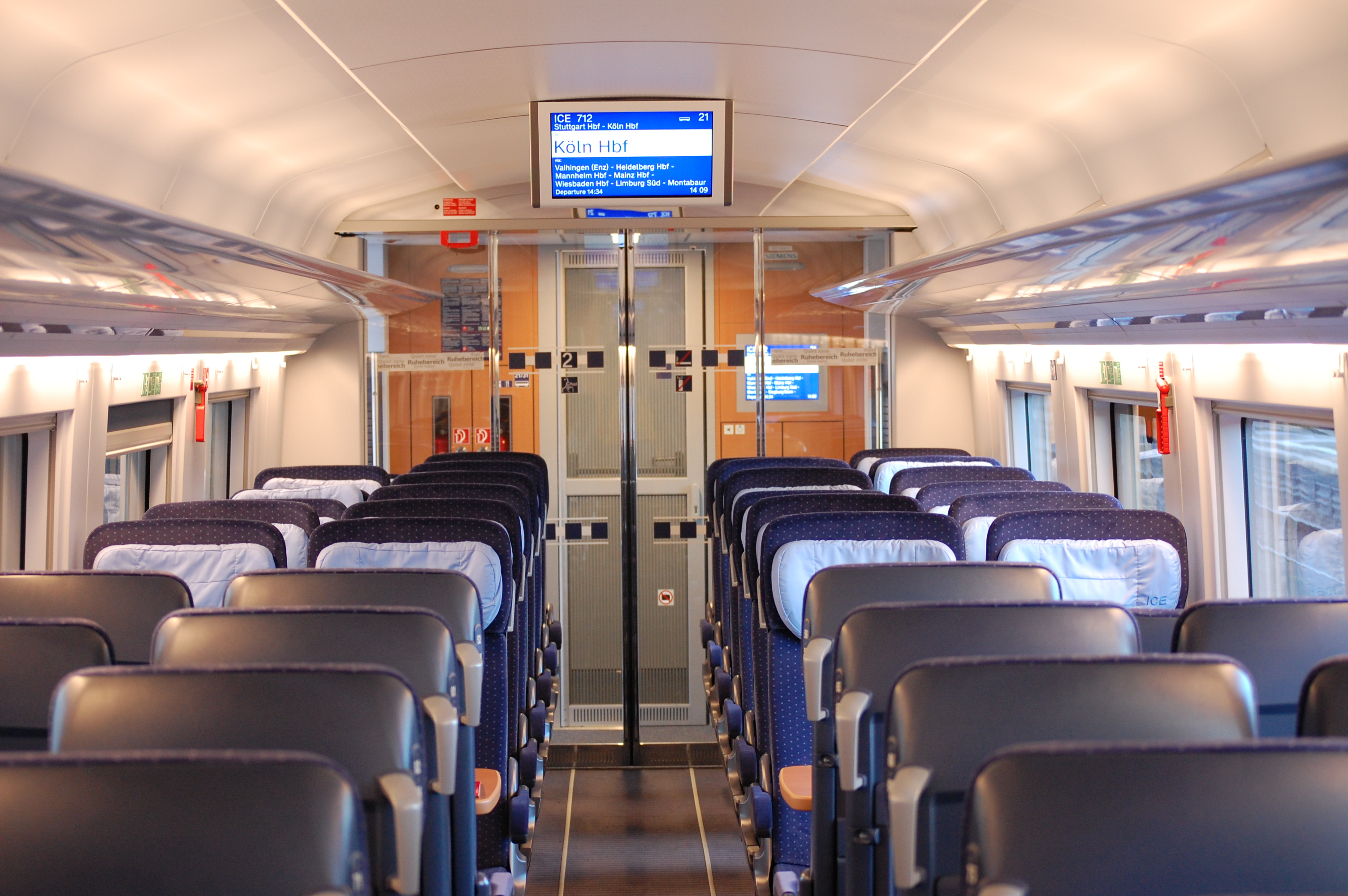 2nd class interior of a DBAG Class 407 train